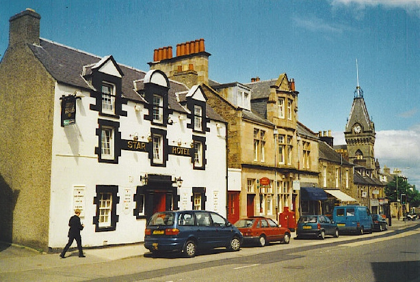 Auchterarder High Street in the sunshine - Star Hotel, Post Office and Town Hall.